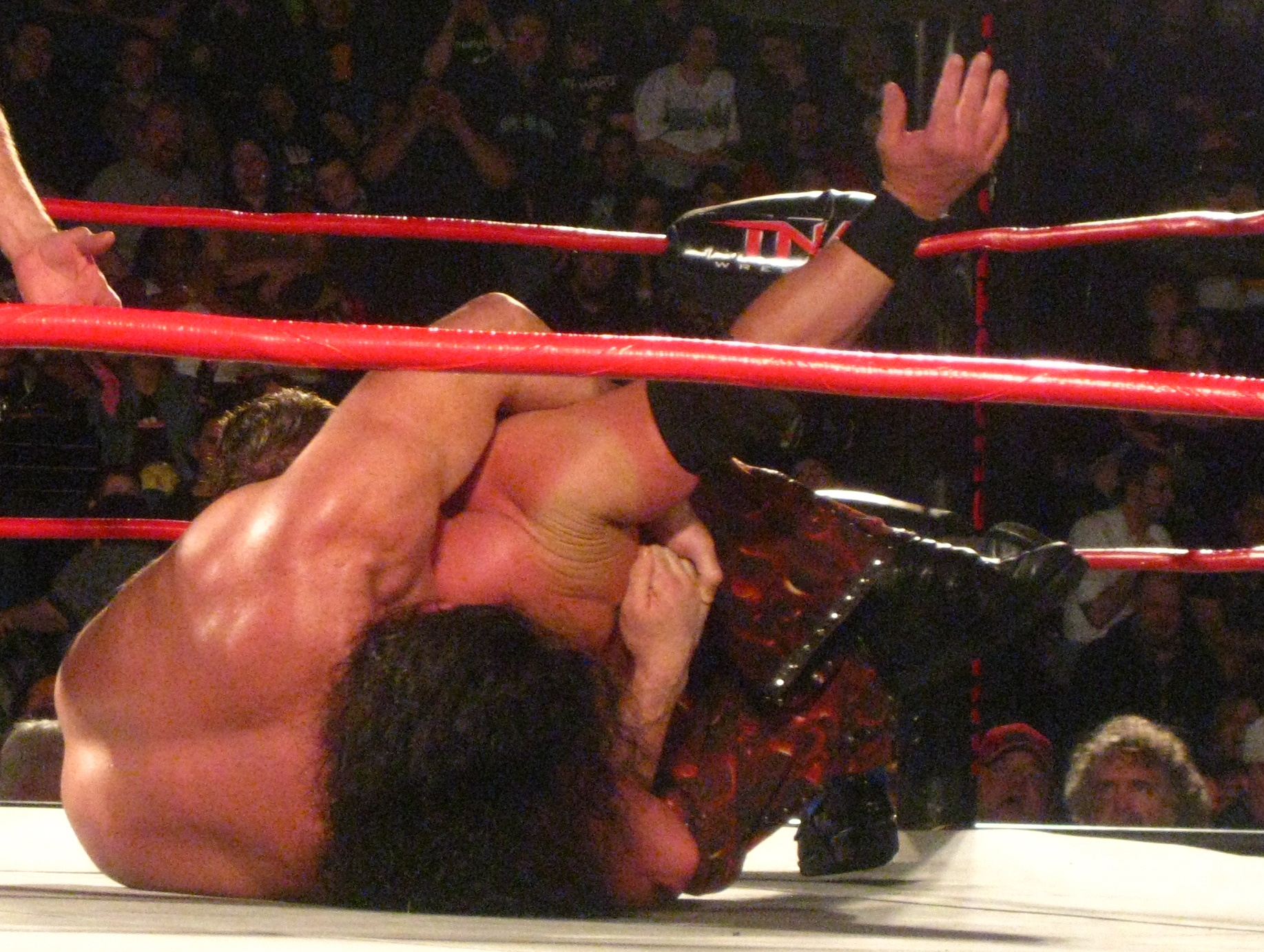 A TNA Live! Even at the ShoWare Center in Kent, WA. No PRO cameras were allowed so I had to put my Canon PowerShot SD1100 IS to work!